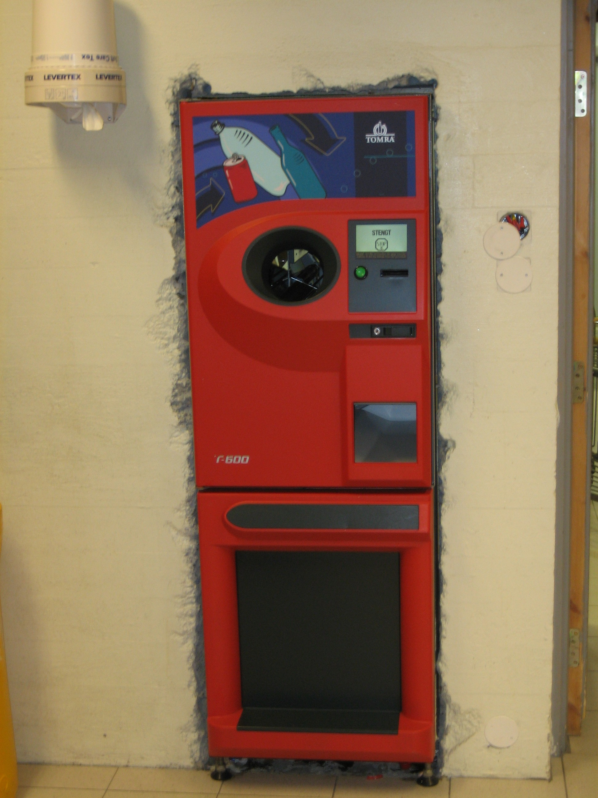 A Norwegian container deposit machine made by the company Tomra